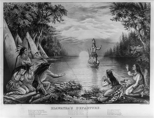 Illustration depicting "Hiawatha's Departure", a scene from the poem "Song of Hiawatha" by Henry Wadsworth Longfellow.